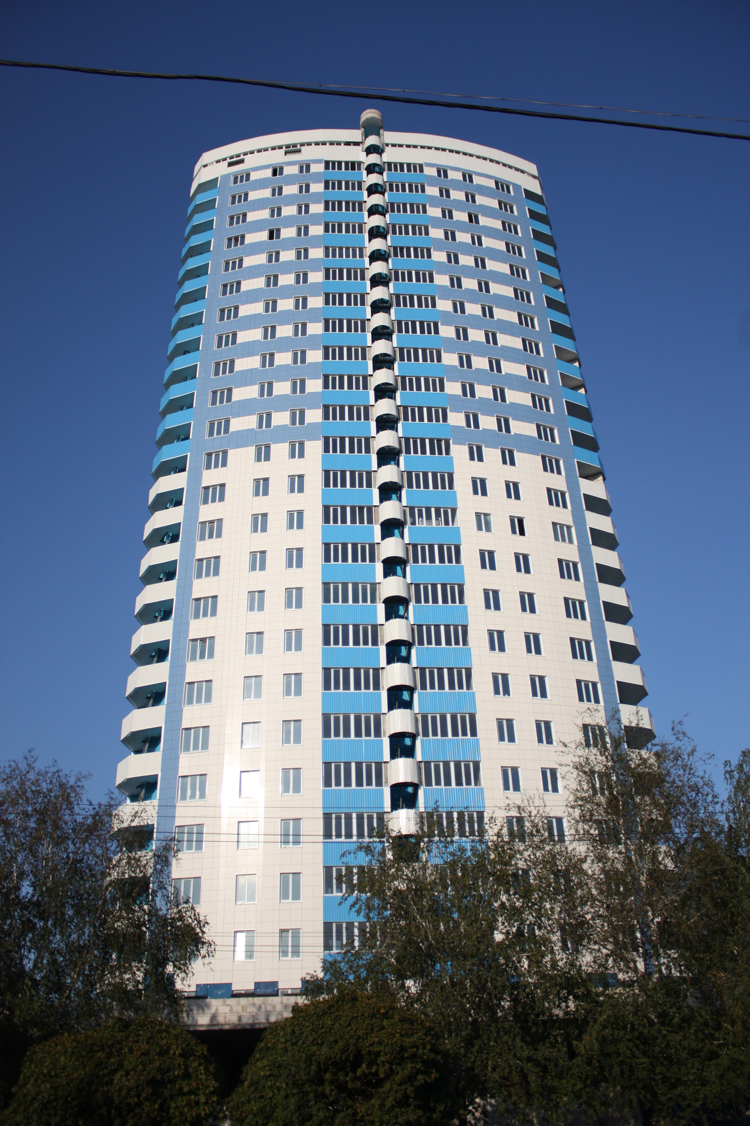 A new house on a Saltovka, Kharkov.